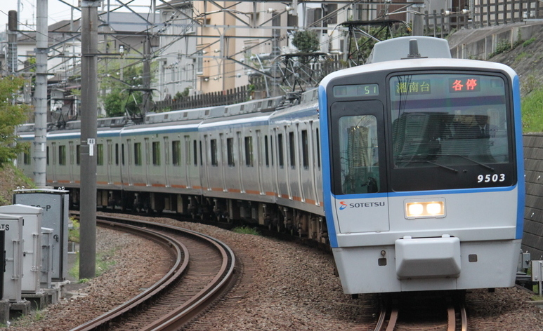 Sotetsu 9000 series EMU set 9503 in revised livery approaching Tsurugamine Station